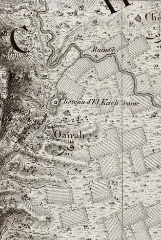 Qira and Tel Yokneam in a portion of map of Pierre Jacotin of northern Palestine, prepared during French military expedition of 1799 and published in 1826.